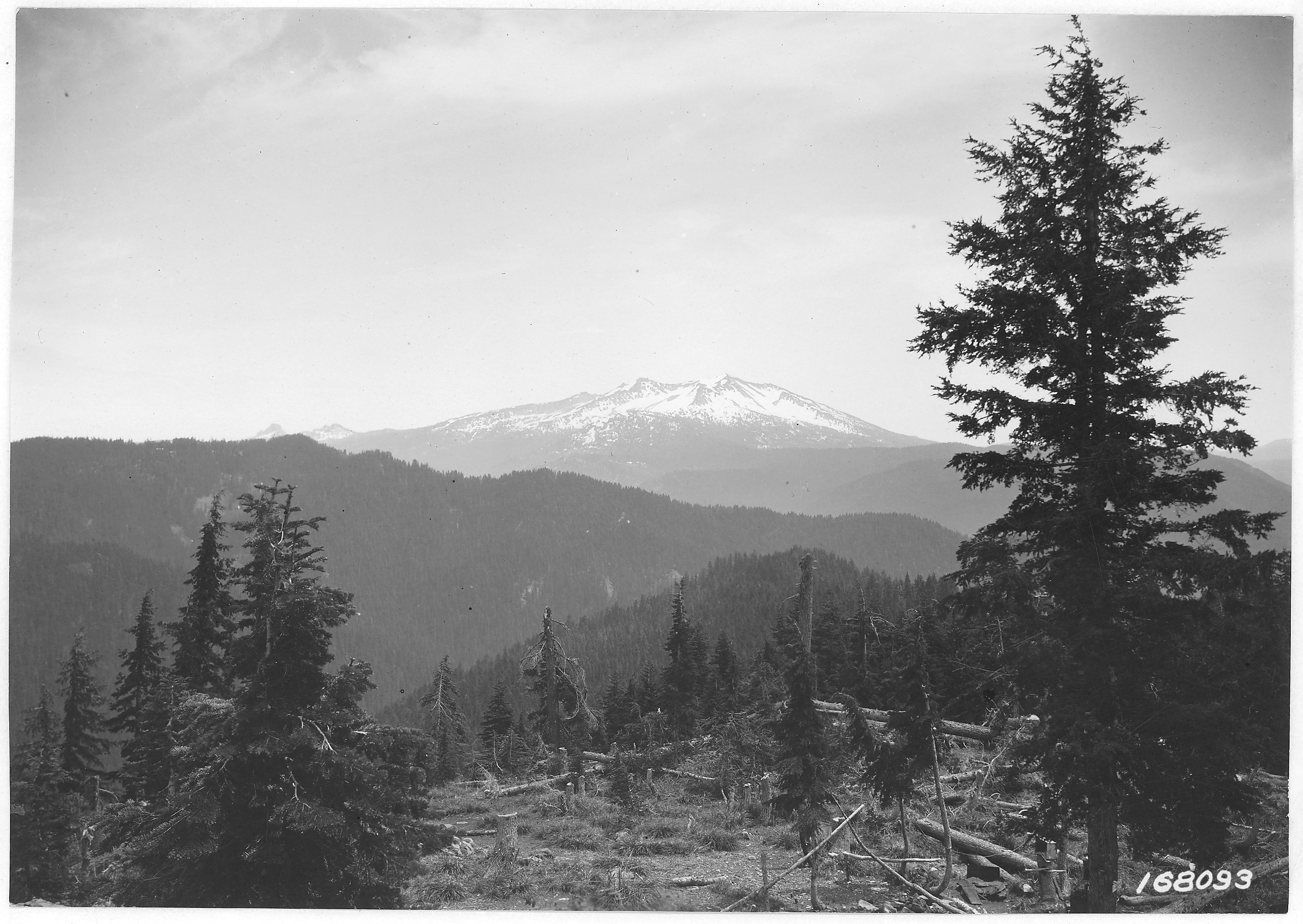 General notes: Diamond Peak from Logger Butte.